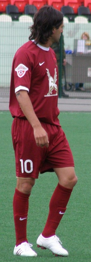 Alejandro Damián Domínguez in action for FC Rubin